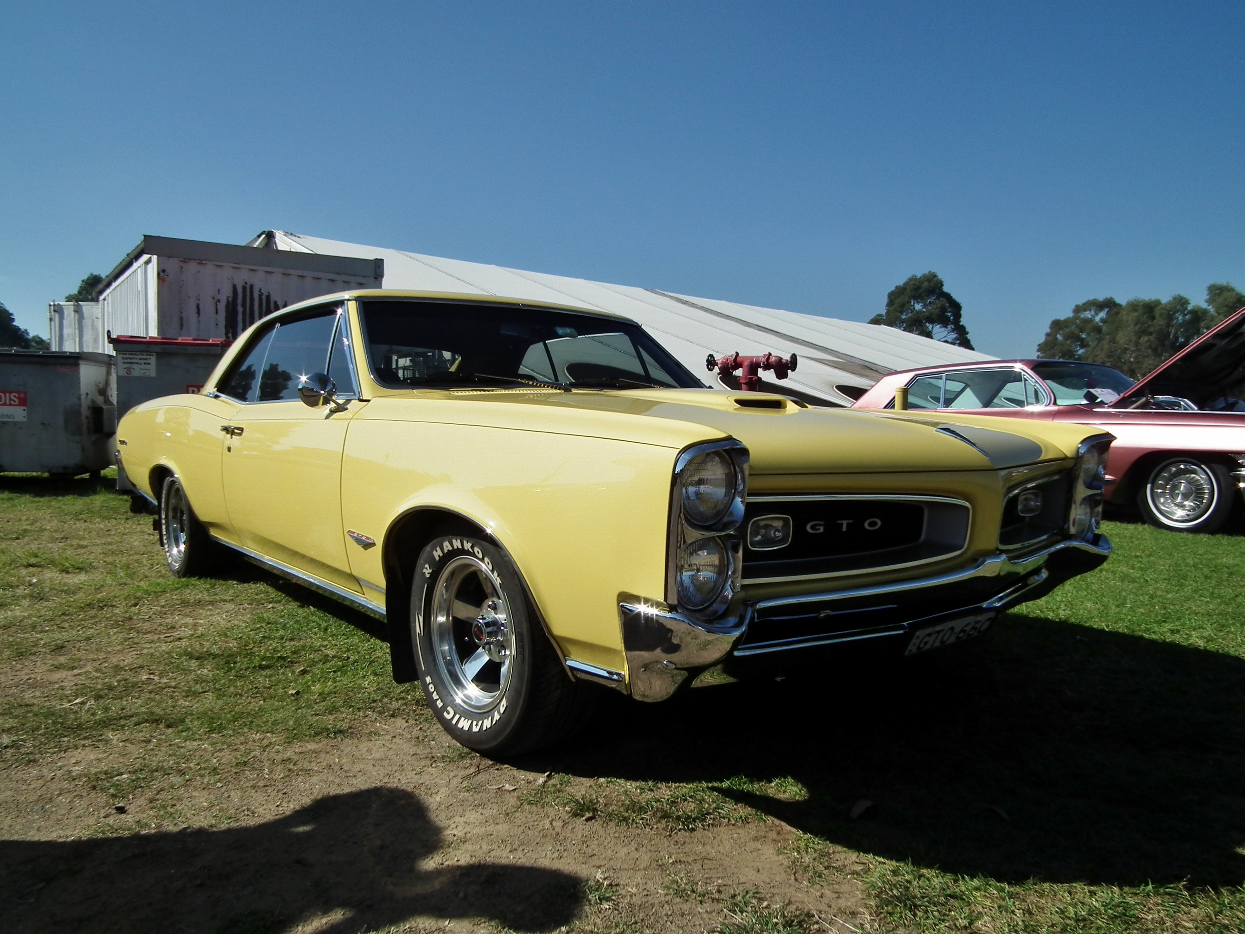 1966 Pontiac GTO coupe. Taken at the 2013 General Motors Display Day, held in the grounds of Penrith Panthers Club, Penrith NSW.